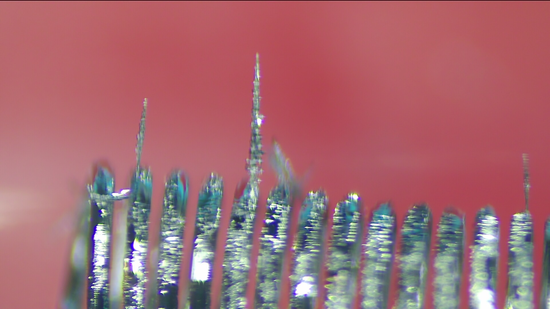 Tungsten crystals that has grown in halogen bulb